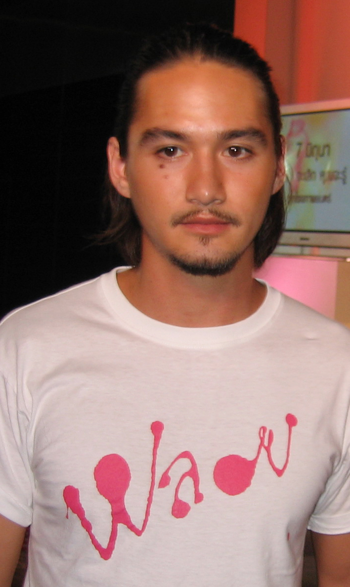 Actor Ananda Everingham at the Thai press preview of the film Ploy at SF World Cinema, CentralWorld, Bangkok.